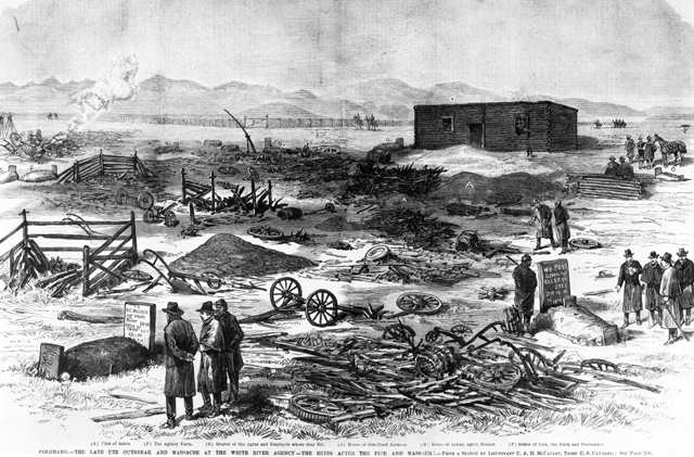 Reproduction of a sketch of the Meeker tragedy at the White River Ute Indian Agency, September 29th 1879, Rio Blanco County, Colorado, shows soldiers surveying the destruction from the fire and battle between Native American Utes and Nathan Meeker, his employees. Identification reads: "(A) piles of ashes, (F) the Agency Farm, (G) graves of the Agent and employés where they fell, (J) house of Sub-Chief Johnson, (M) grave of Indian Agent Meeker, (P) grave of Post, the Clerk and Postmaster." Gravestones read: "N. C. Meeker, Agt. White River, Utes, Killed By Them, Sept. 29 or 30," and "W. H. Post, Clerk Agt. Killed By Utes, Sept. 29, 30, 31, 1879." Title and lettered identification typed below photographic reproduction of an etching of a sketch by Lieutenant C. A. H. McCauley, Third U. S. Cavalry.